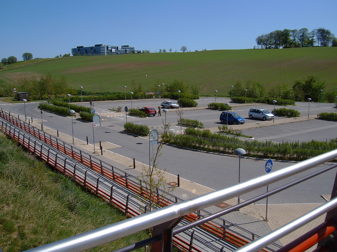 A picture fo the Danish Train Station: Kildedal